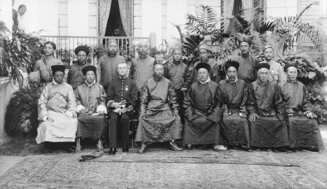 Hastings House Calcutta 1910. Seated from left: Prince of Derge Ngawang Jampel, Crown prince of Sikkim Sikyong Tulku, Charles Bell, 13th Dalai Lama, Lonchen Shatra, Lonchen Zholgang, Lonchen Chankyim and Kalon Tenzin Wangpo. Standing from left S.W Laden la, Tashi Wangdi, unknown, physician Ngoshi Jhampa Thubwang, unknown, unknown, Phala (aka Kusho Palhese), unknown Nepalese soldier.